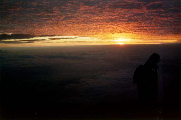 Sunrise between two layers of clouds near the summit of Mt. Fuji.